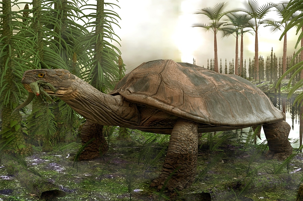 The enormous freshwater turtle, that existed around 60 million years ago, is depicted here having just snapped up a crocodylomorph from a patiently awaited lakeside ambush. The adult turtle would have been about the same size as a Smart car, and the shell could have been inverted and used as a kiddie pool. Fossil evidence suggest that the jaws were very powerful and most likely would have crushed mollusks and crocodiles with a single snap. Its large size would have made it virtually impervious to attack from the larger crocodillian species of the era. The turtle evolved in a period after the dinosaurs. This is only an artistic depiction since there is not much fossil remains at this time.